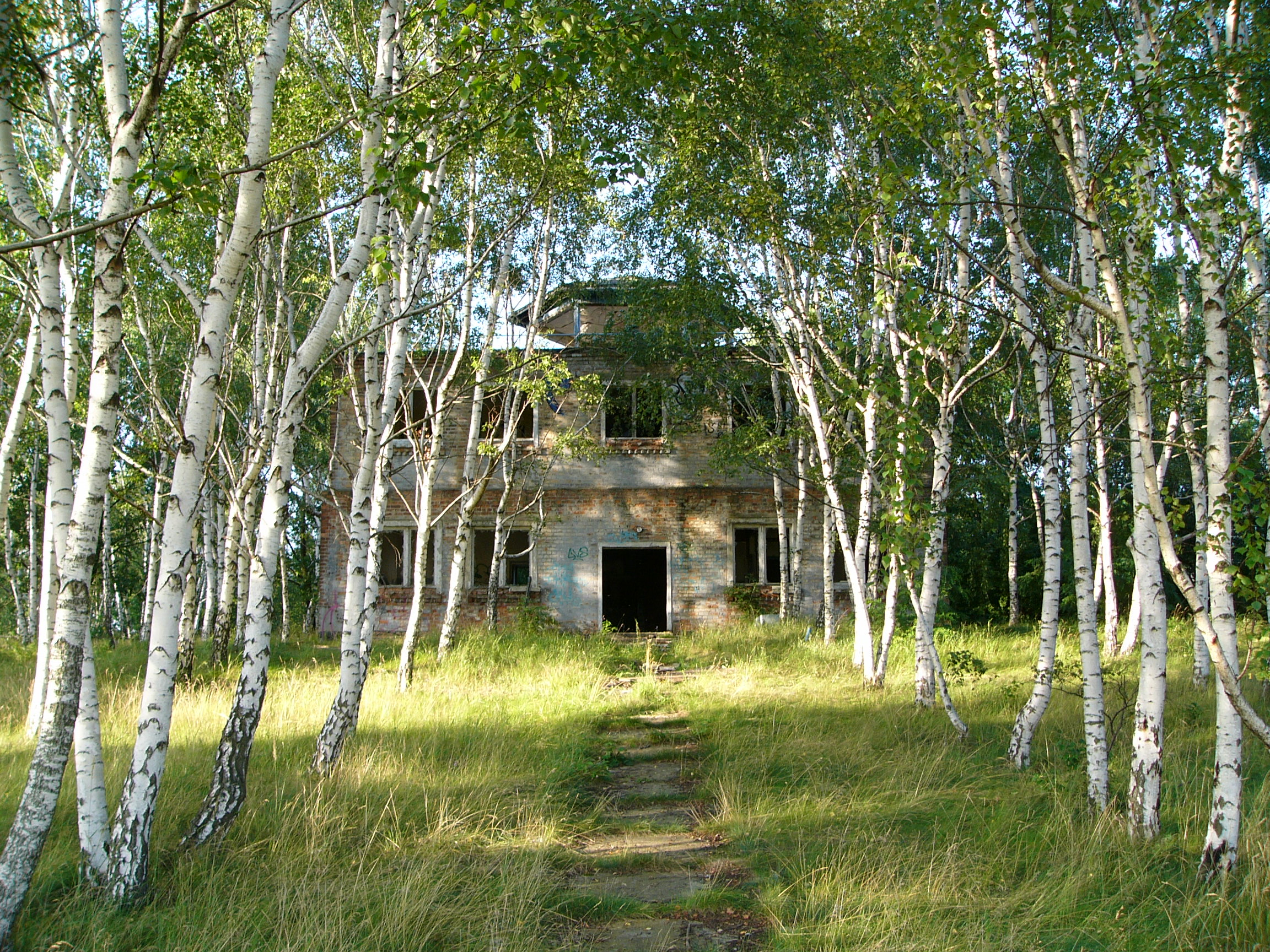 old Tower of military Airfield Dresden Heller